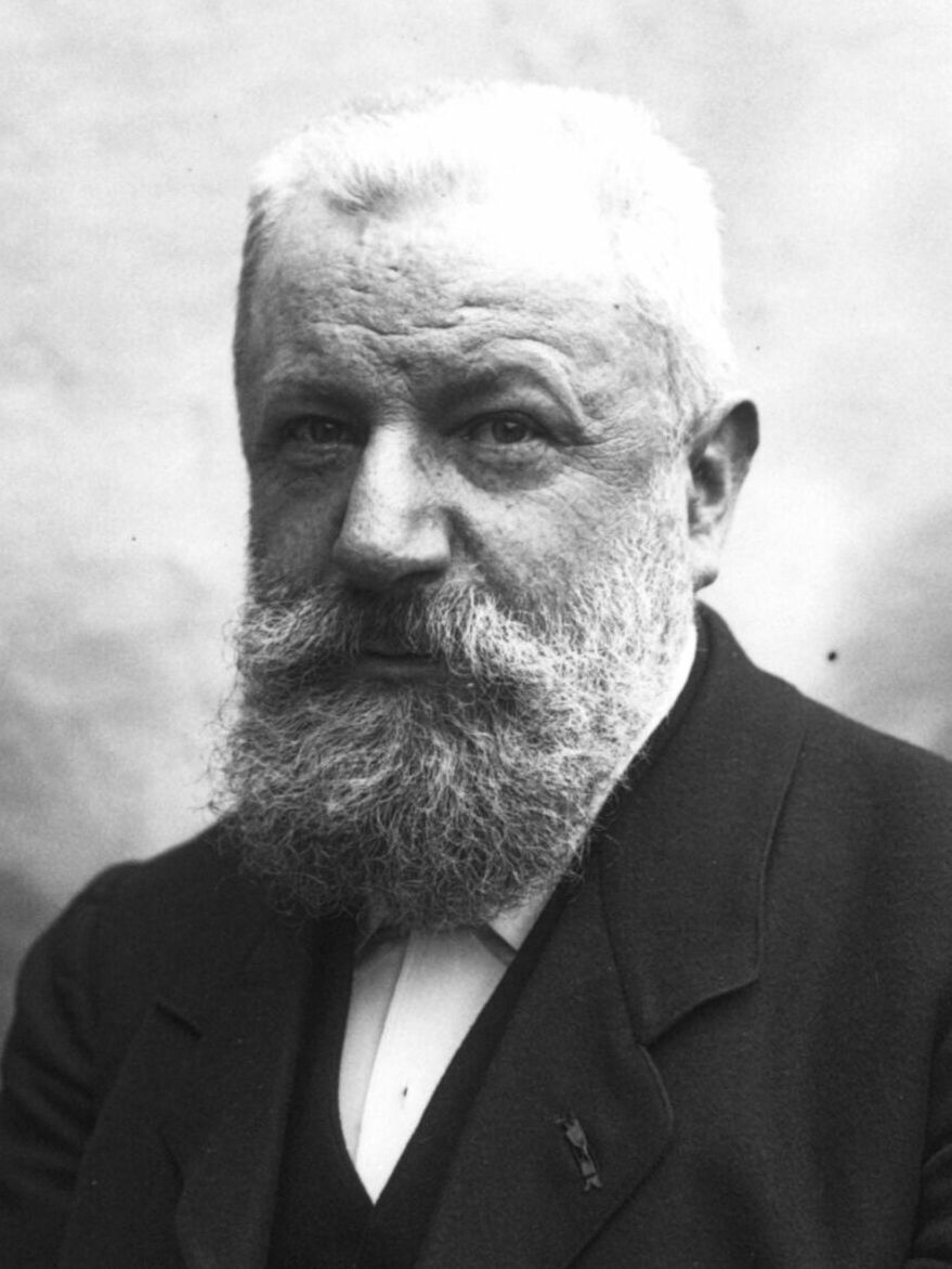 French inventor Fernand Forest (1851-1914)